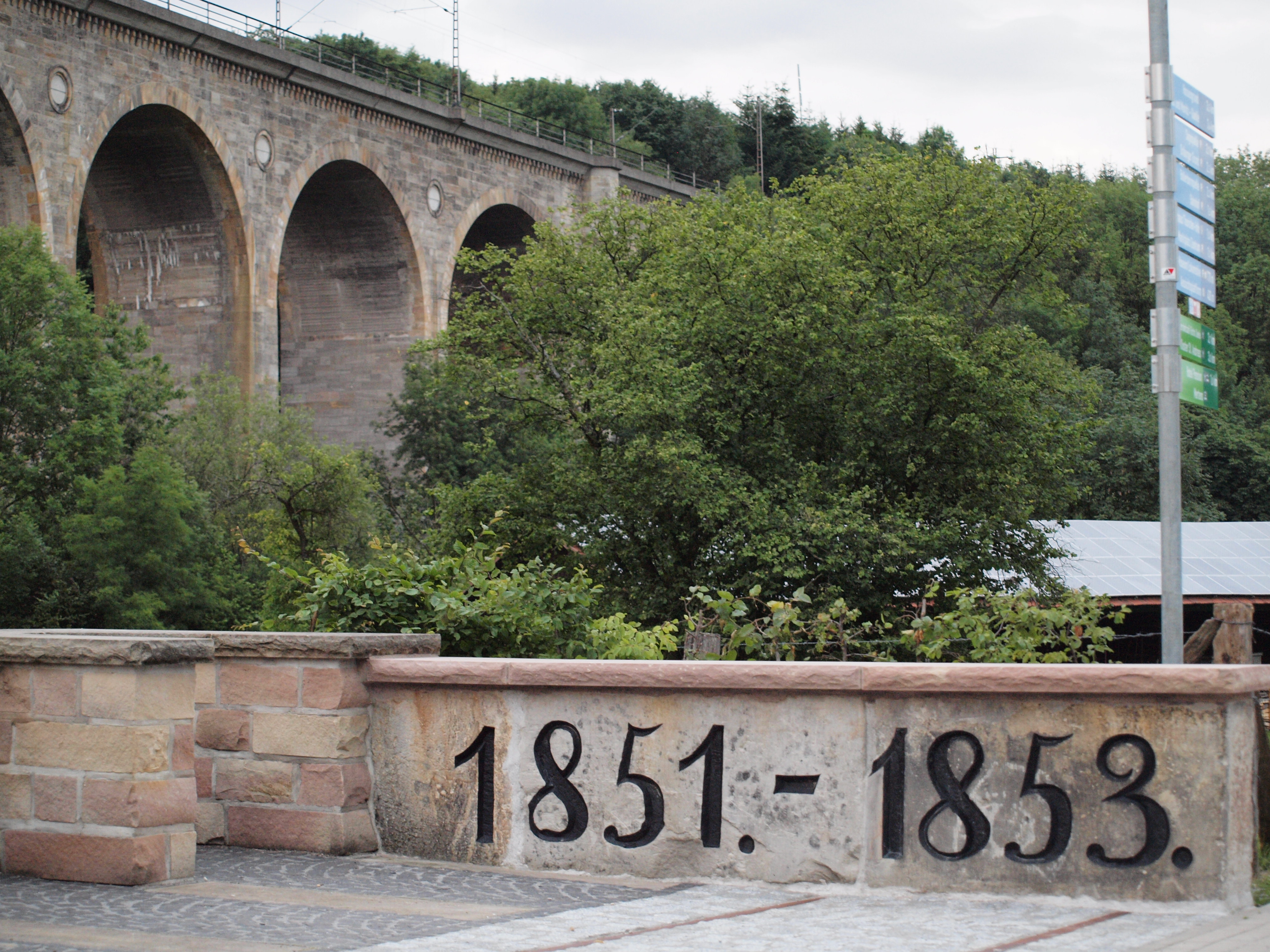 Keystones at the foot of the viaduct